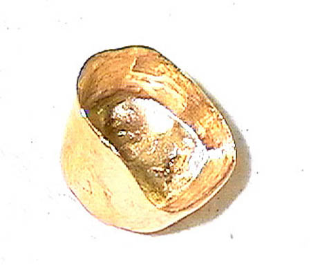 Zahnkrone, Gold - dental crown - denture